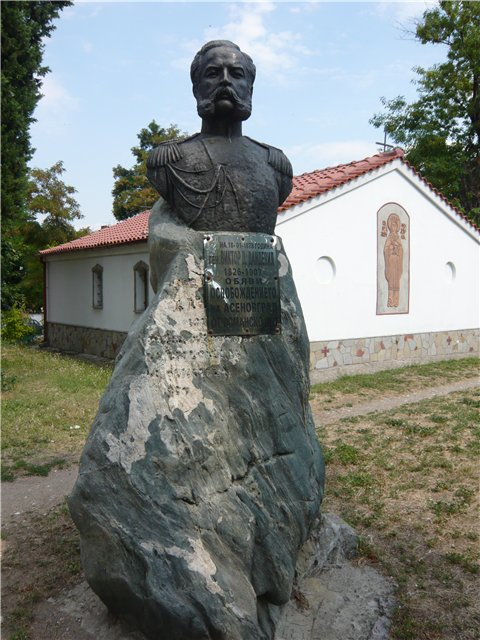 A monument of russian general Dandevil in Asenovgrad, Bulgaria.